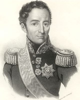 Lithographie von M. Knäbig nach Rentzsch um 1840.